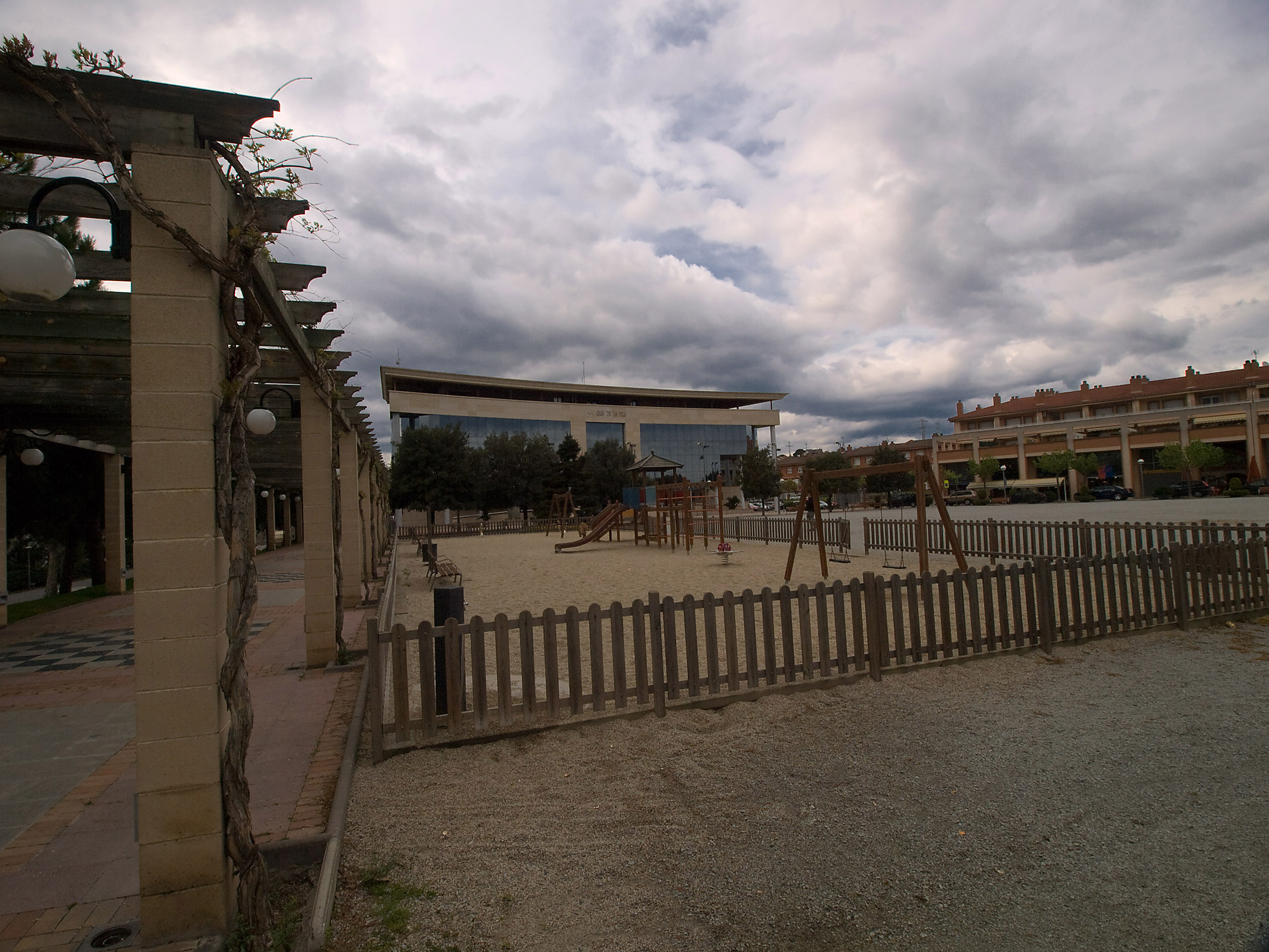 City council square of Lliçà de Vall